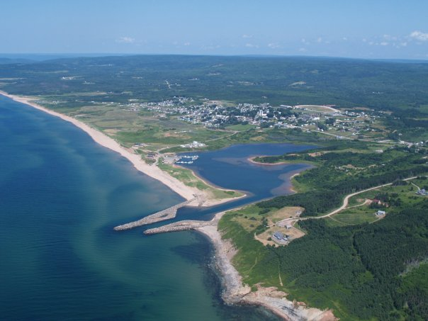 Inverness, Nova Scotia from the sky.